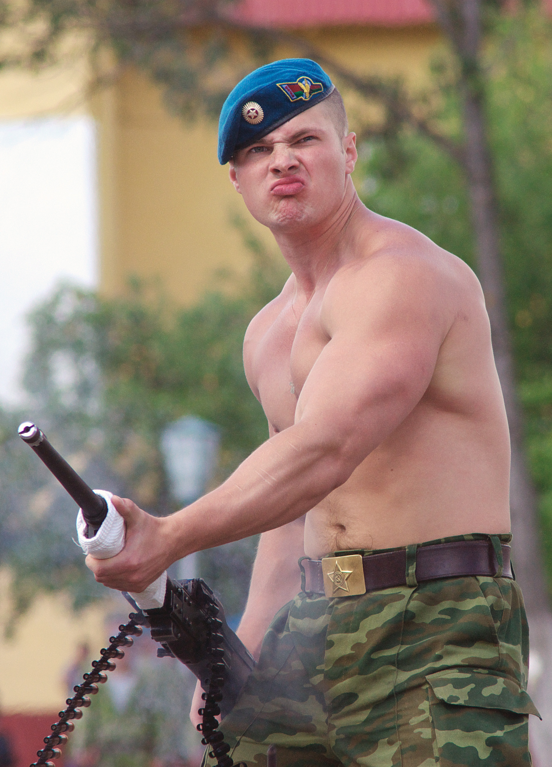 Soldiers of the reconnaissance 103rd Guards separate mobile brigade fires from PKT mashine gun